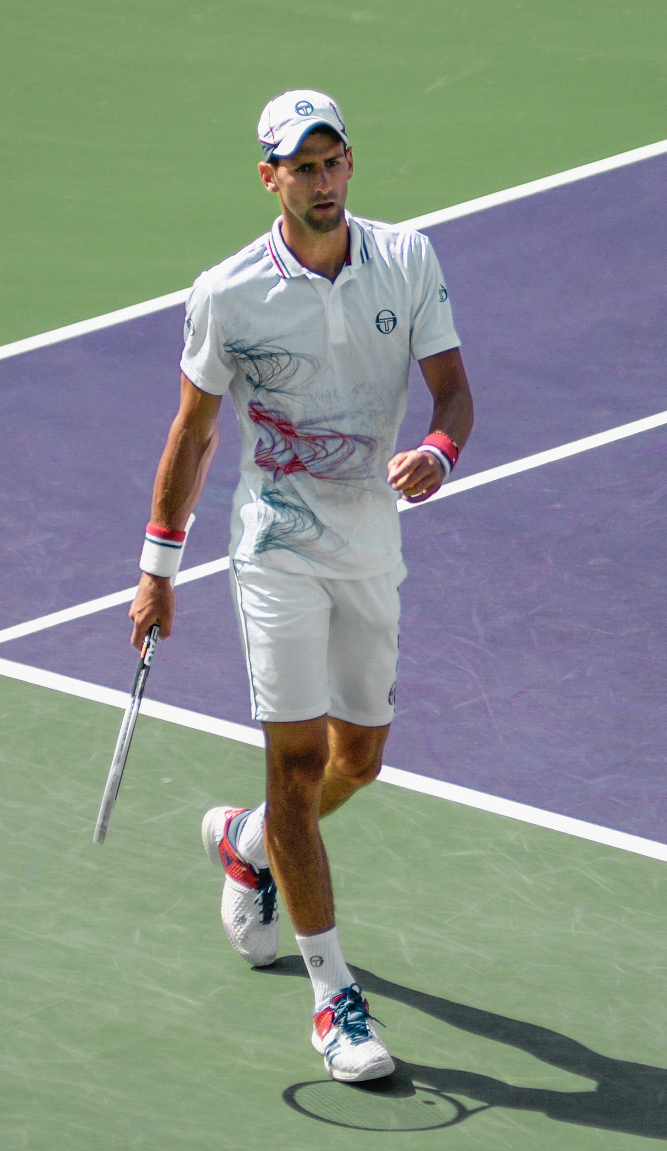 Djokovic playing in the Sony Ericsson Open.